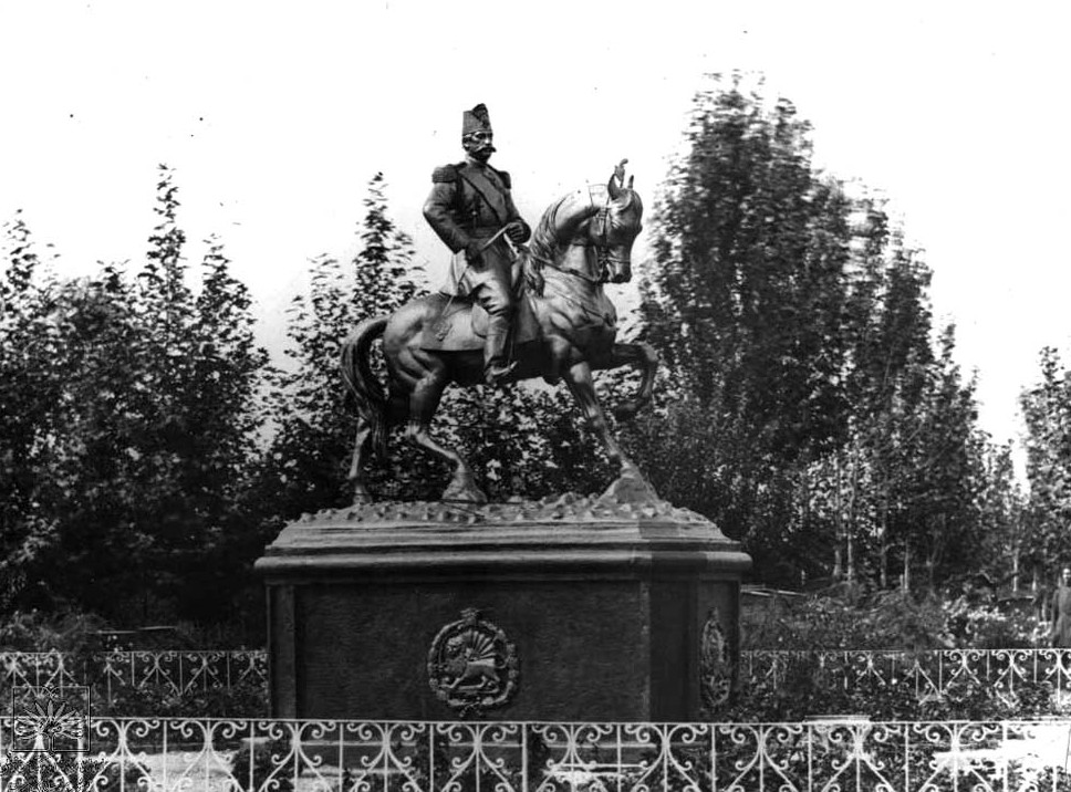 Statue of Naseroddin Shah Qajar riding a horse in the middle of Bagheshah (King Garden) in Tehran in the 1900s. The emblem of the Iranian Imperial government Lion & Sun is visible on the base of the statue.